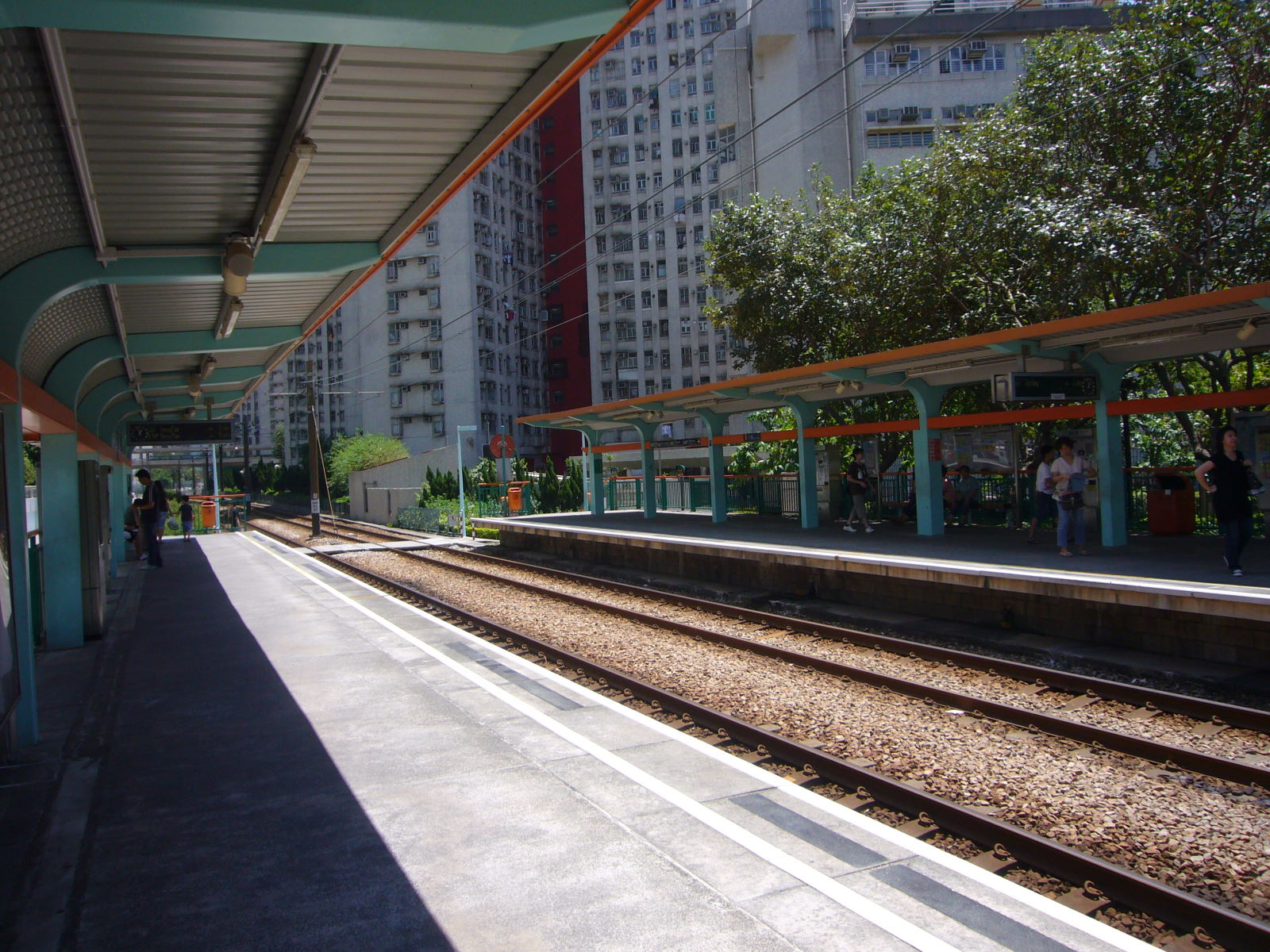 LRT Siu Hei Stop, MTR HK